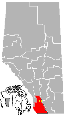 Location of Claresholm, Census Division No. 3, Albera